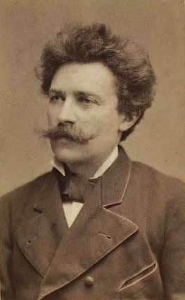 Carl Frederik Sundt-Hansen (1841-1907), Dano-Norwegian painter